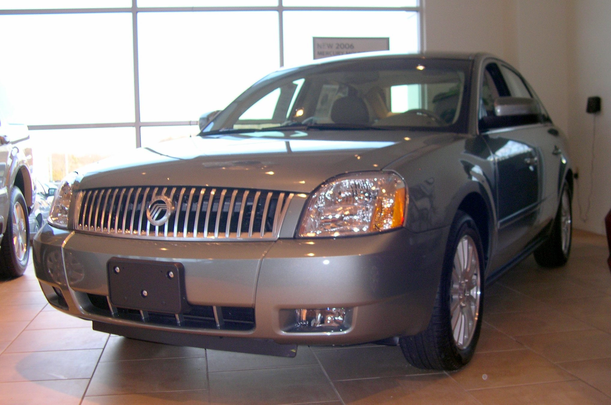 2006 Mercury Montego